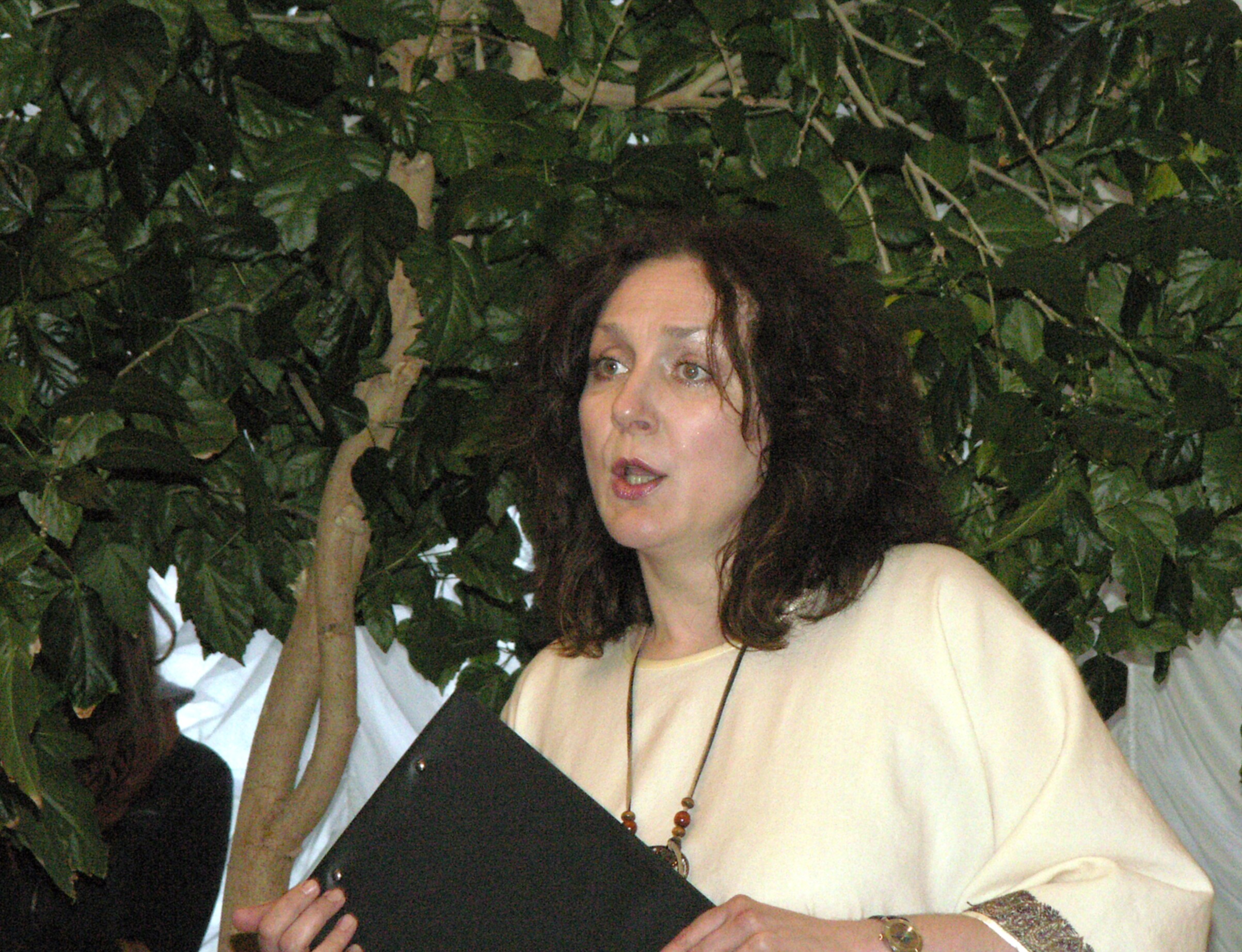 Nomeda Bėčiūtė, Actress of Šiauliai, Lithuania